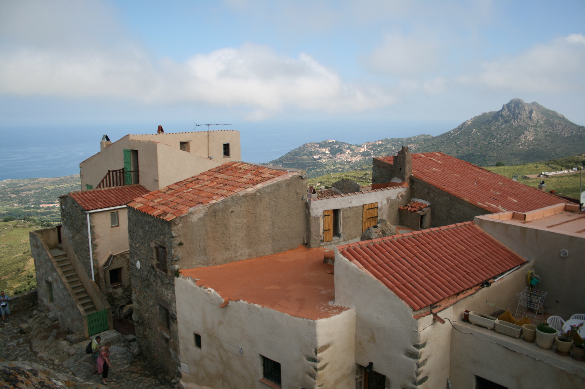 Sant'Antonino (Haute-Corse) France, the Mediteranean sea and the (Balagne). Walon: Sant'Antonino (Ôte-Corse) - France, li mer Méditeranêye èt l'Balagne.